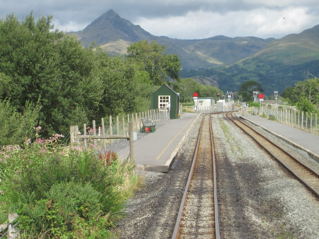 Pont Croesor railway station, Gwynedd. Opened in 2010 on the narrow gauge Welsh Highland Railway line from Caernarfon to Porthmadog. View north towards Nantmor and Caernarfon.